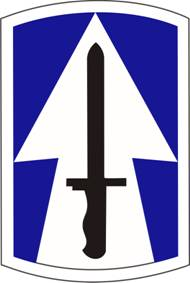 United States Army 76th Infantry Brigade Combat Team shoulder sleeve insignia (shoulder patch)